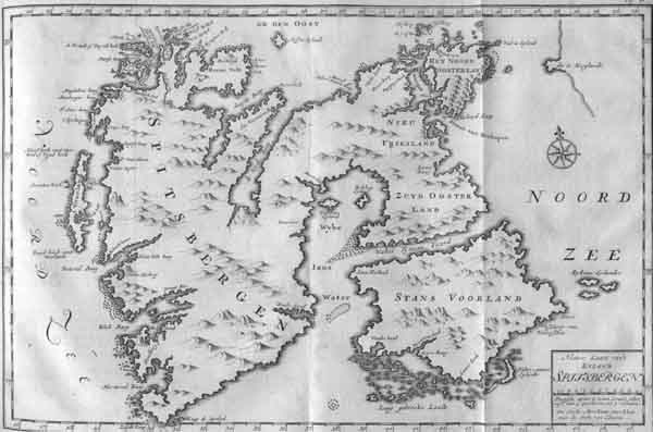 18th century (1720) map of Spitsbergen. (dutch).